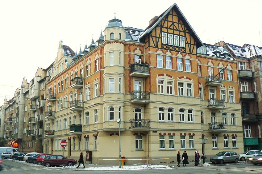 Poznan, Wierzbiecice Street N.21, Spar- und Bauverein House.